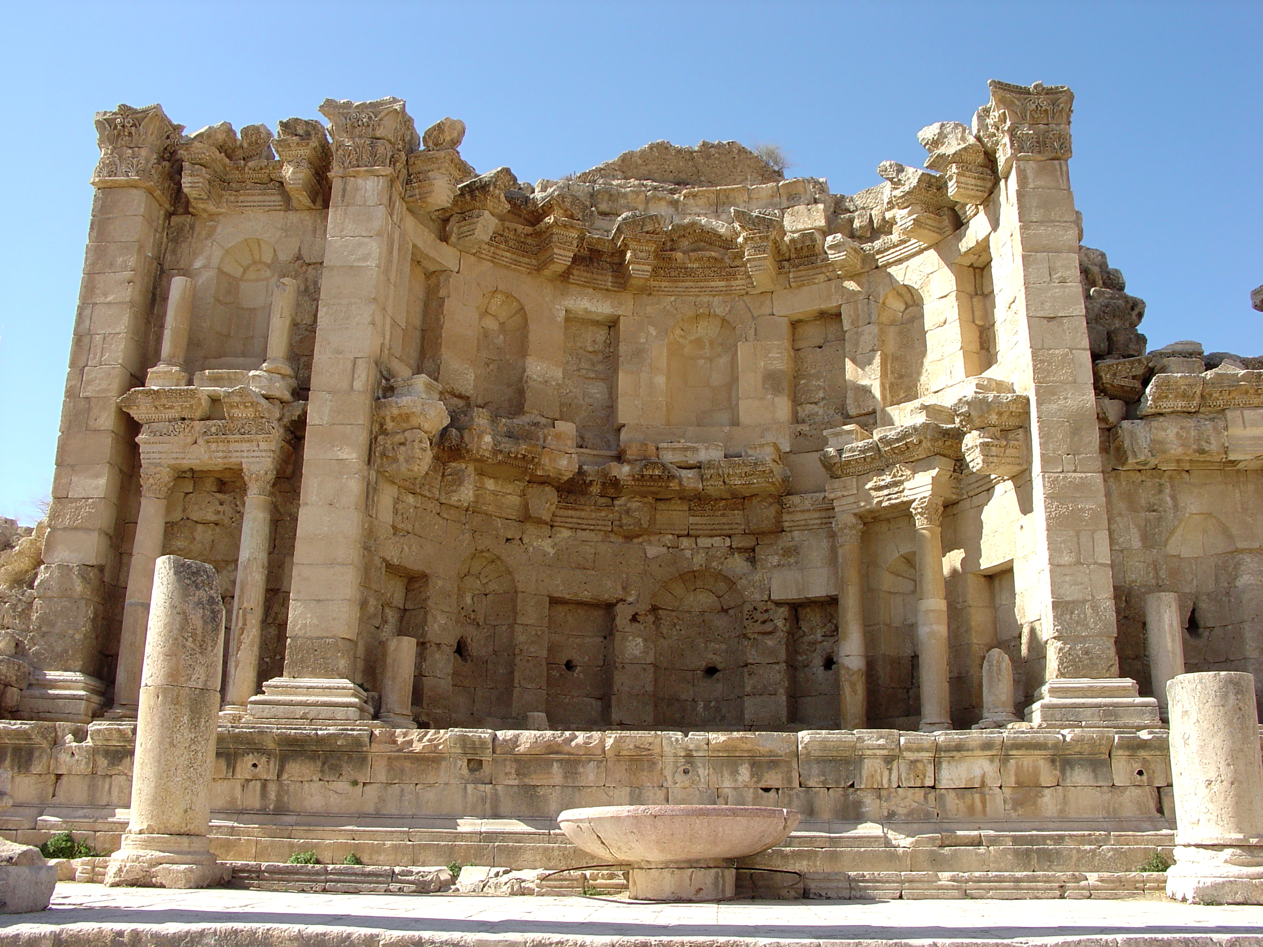 Nymphaeum (fountain); Jerash, Jordan.+